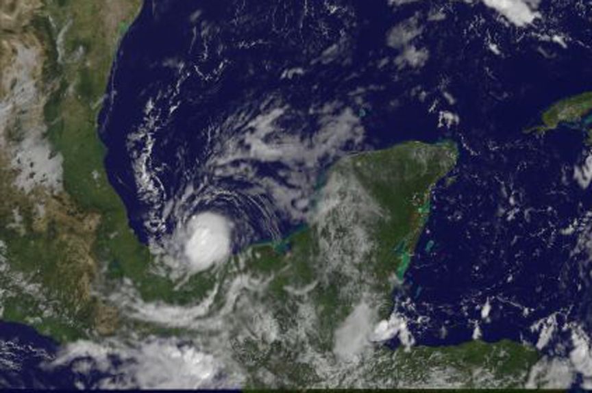 Tropical Storm Marco on October 6, 2008